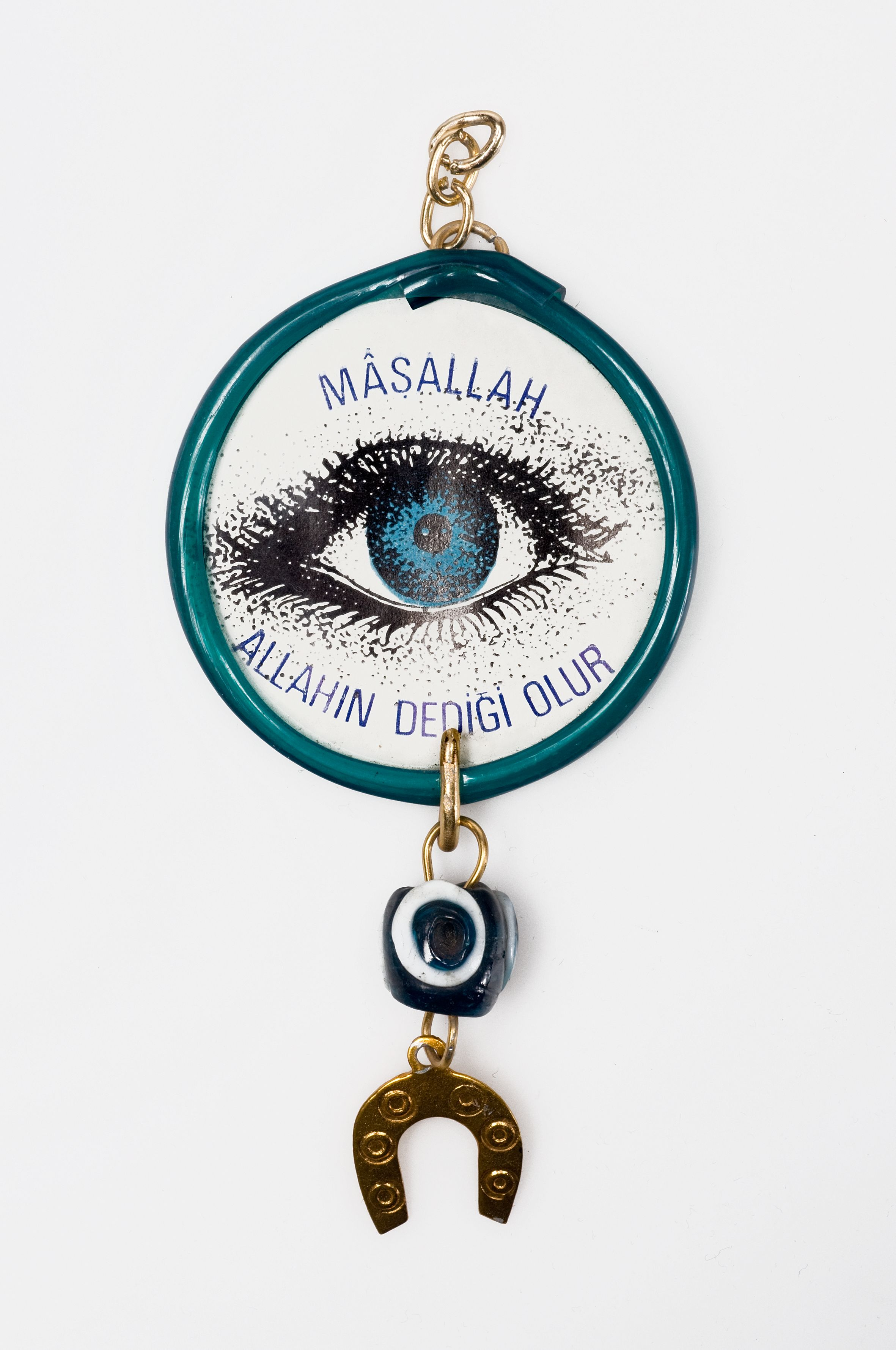 Collected by Josephine Powell .